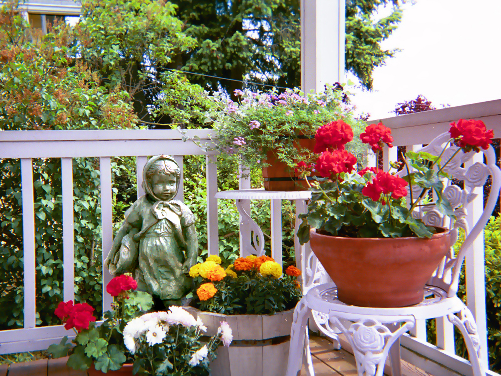 Container garden on front porch සිංහල: නිවසක ඉදිරිපස පෝටිකෝවෙහි නිර්මාණය කර ඇති ඇසුරුම් උද්‍යාන